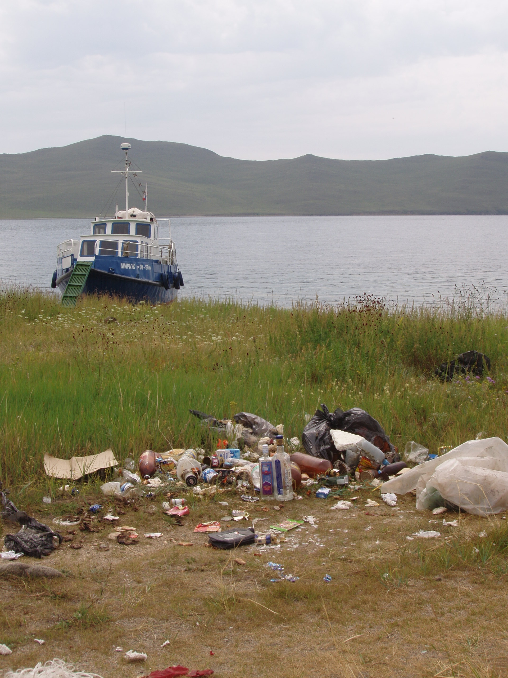 Garbage at a beach of Lake Baikal, in 2006.